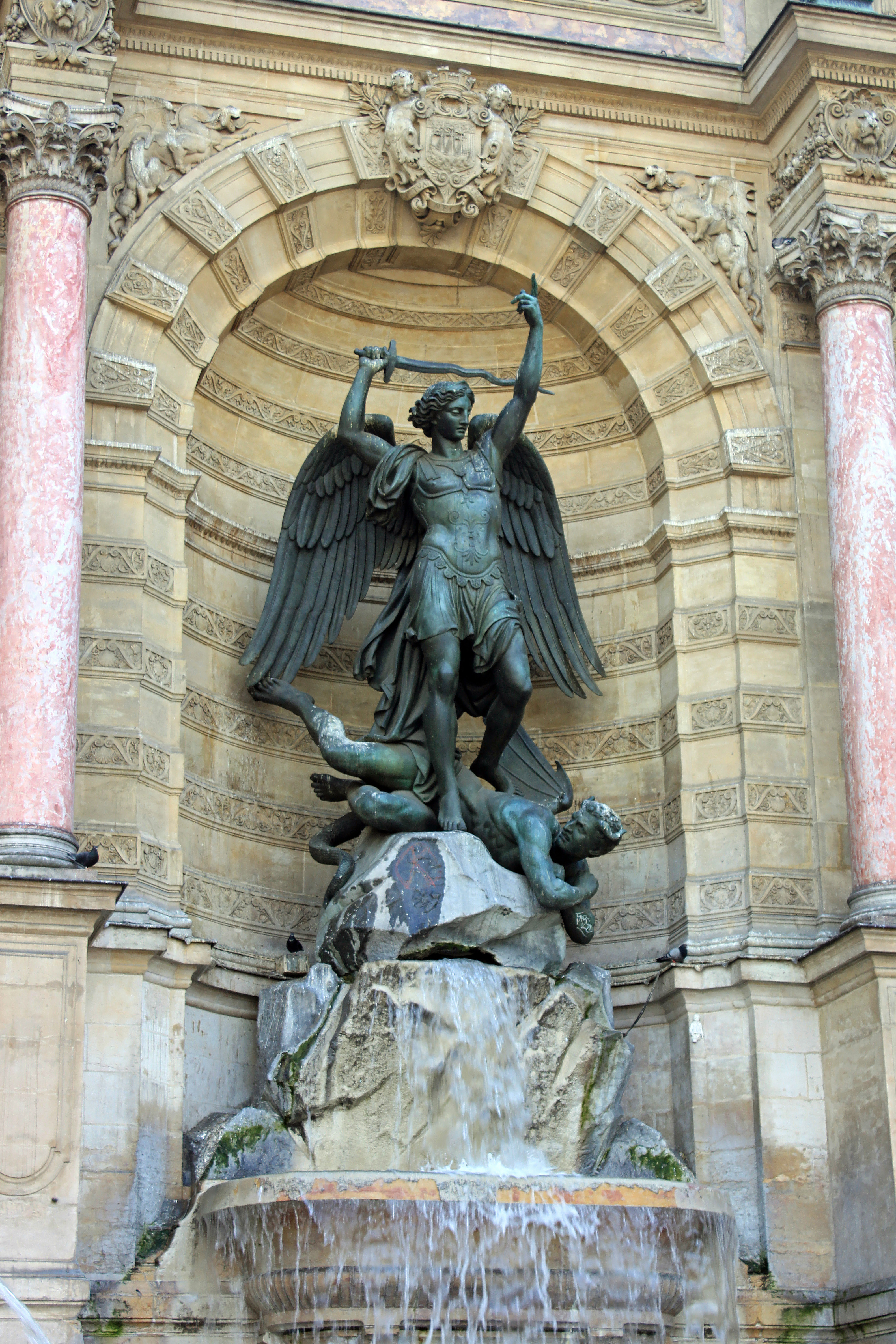 Saint Michel terrassant le Démon by Francisque Duret (1804-1865), Fontaine Saint-Michel, Paris.